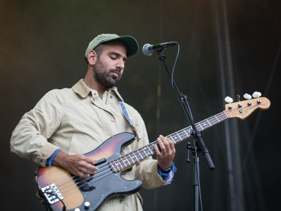 Alex Bleeker at the main stage in the Vigeland Park. The concert was part of Piknik i Parken and took place on 23. June 2017 in Oslo. Lineup: Martin Courtney (guitar and vocal), Alex Bleeker (bass guitar and vocal), Jackson Pollis (drums), Matt Kallman (keyboard) and Julian Lynch (guitar).